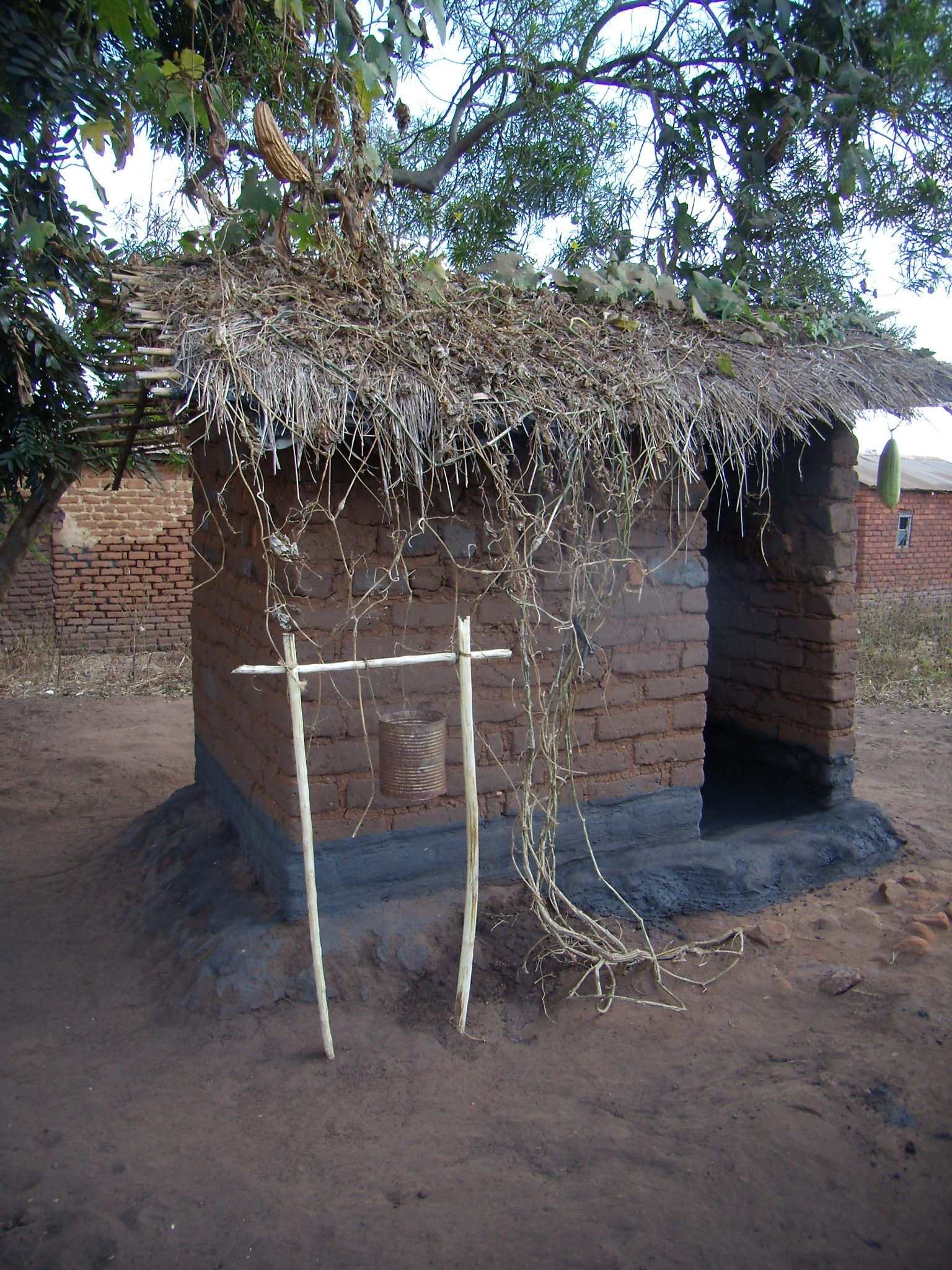 Msenda, Lilongwe district, Malawi Photo taken by: Leonie Kappauf June 2011